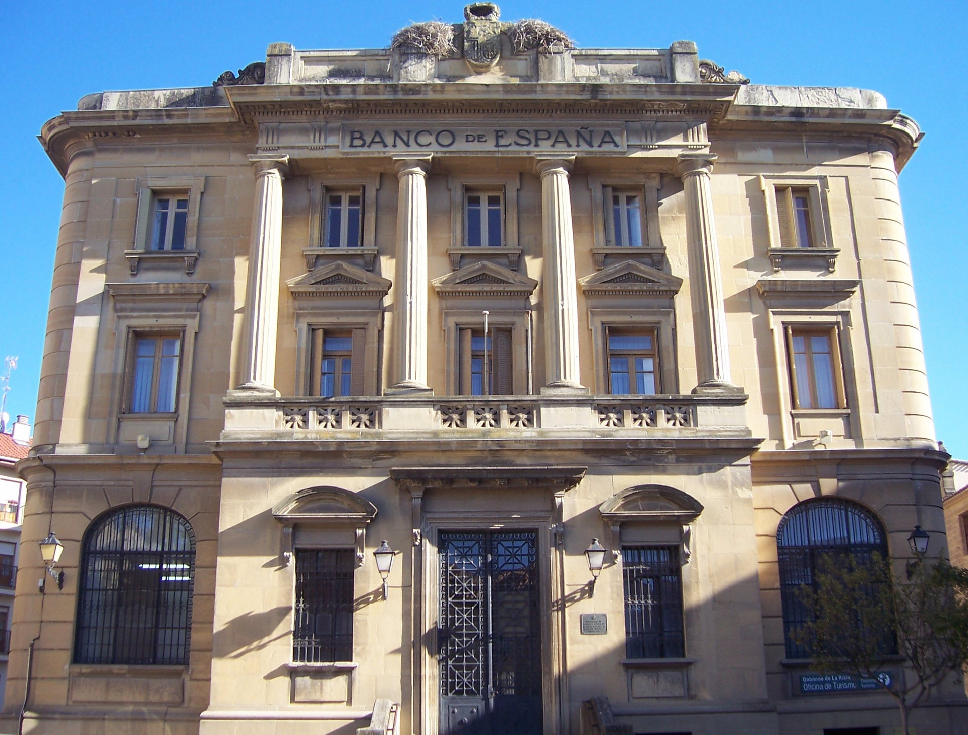 Sucursal Bank of Spain in Haro, La Rioja